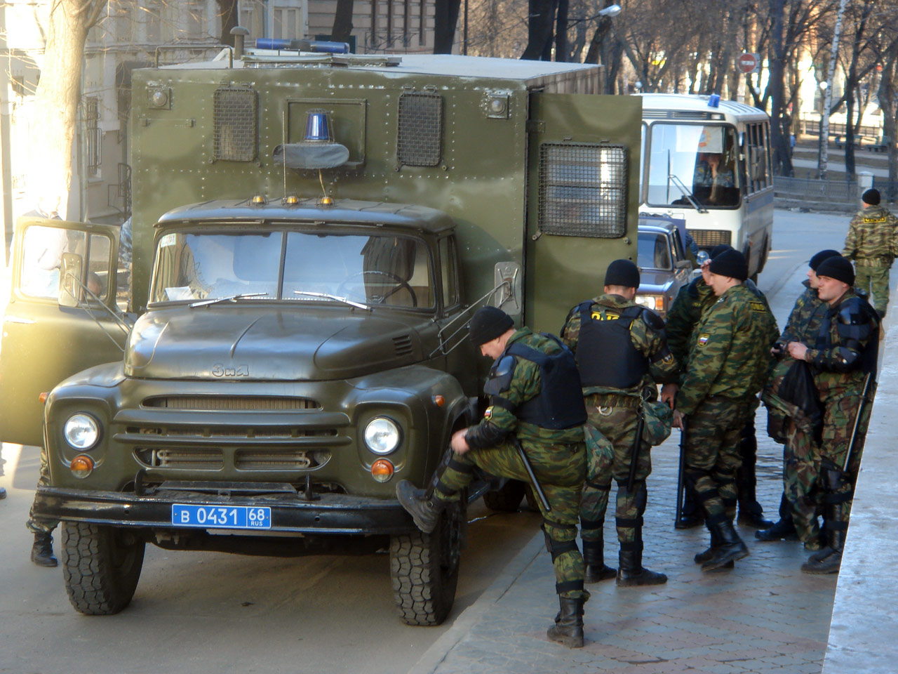 ZiL-4315-ATN of Tambov OMON units in Nizhny Novgorod.